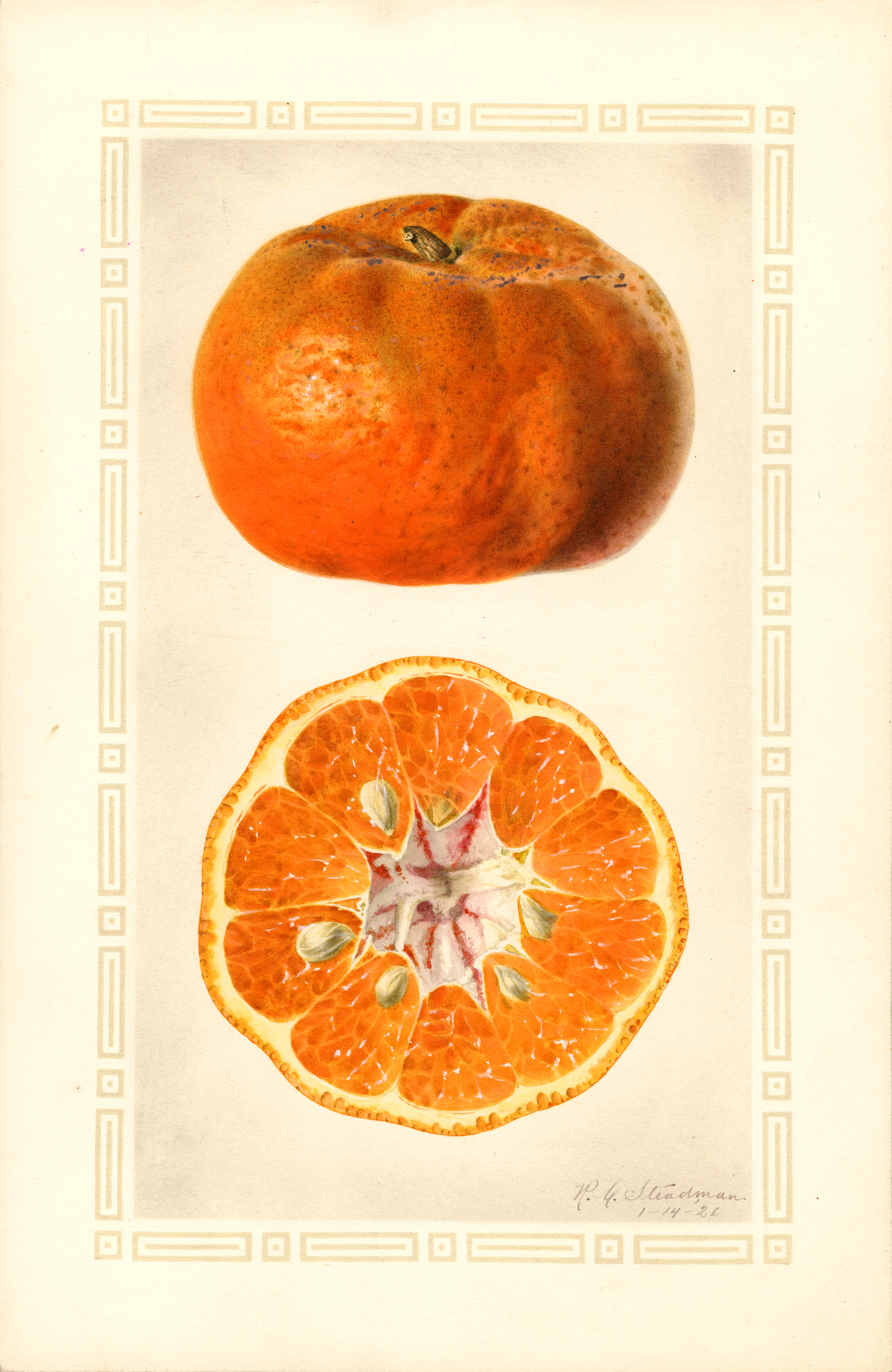 Image of the Manurco variety of tangerines (scientific name: Citrus reticulata), with this specimen originating in Ocala, Marion County, Florida, United States. Source: U.S. Department of Agriculture Pomological Watercolor Collection. Rare and Special Collections, National Agricultural Library, Beltsville, MD 20705.